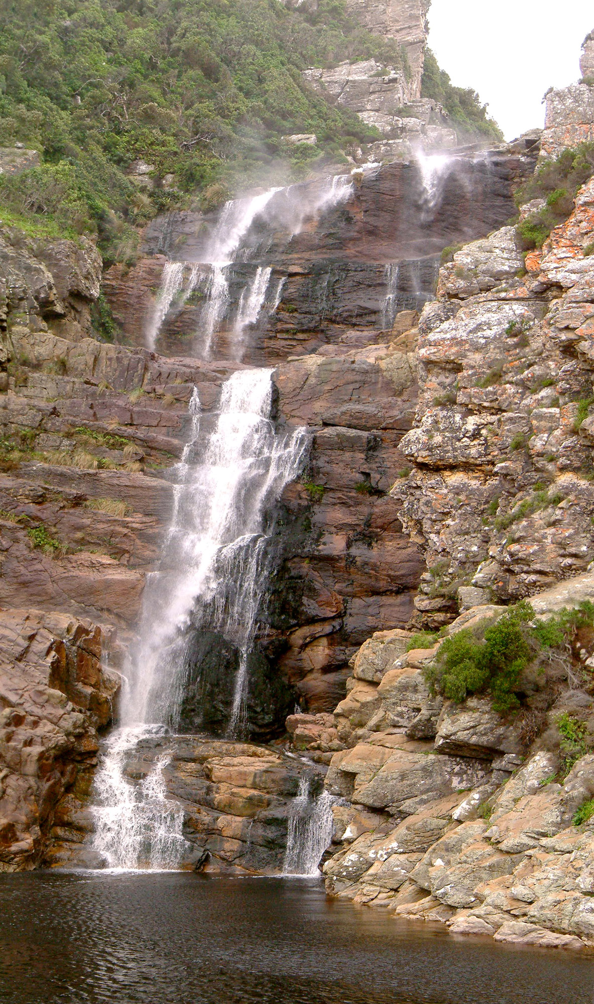 Waterfall on Jerling River along the Otter trail, Tsitsikamma National Park, South Africa. Stitch of four images.